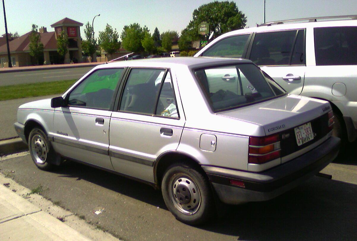 Pontiac Sunburst was a version of GM's R-body made for Canada only. Also sold as the Isuzu I-Mark, Geo/Chevrolet Spectrum as well as Gemini in other countries. 1.5 liter SOHC inline four engine and sold from 1985 to 1988.